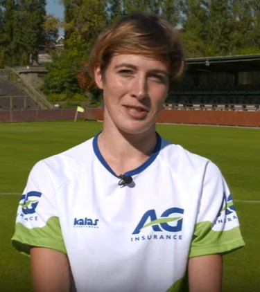 Belgian female football player